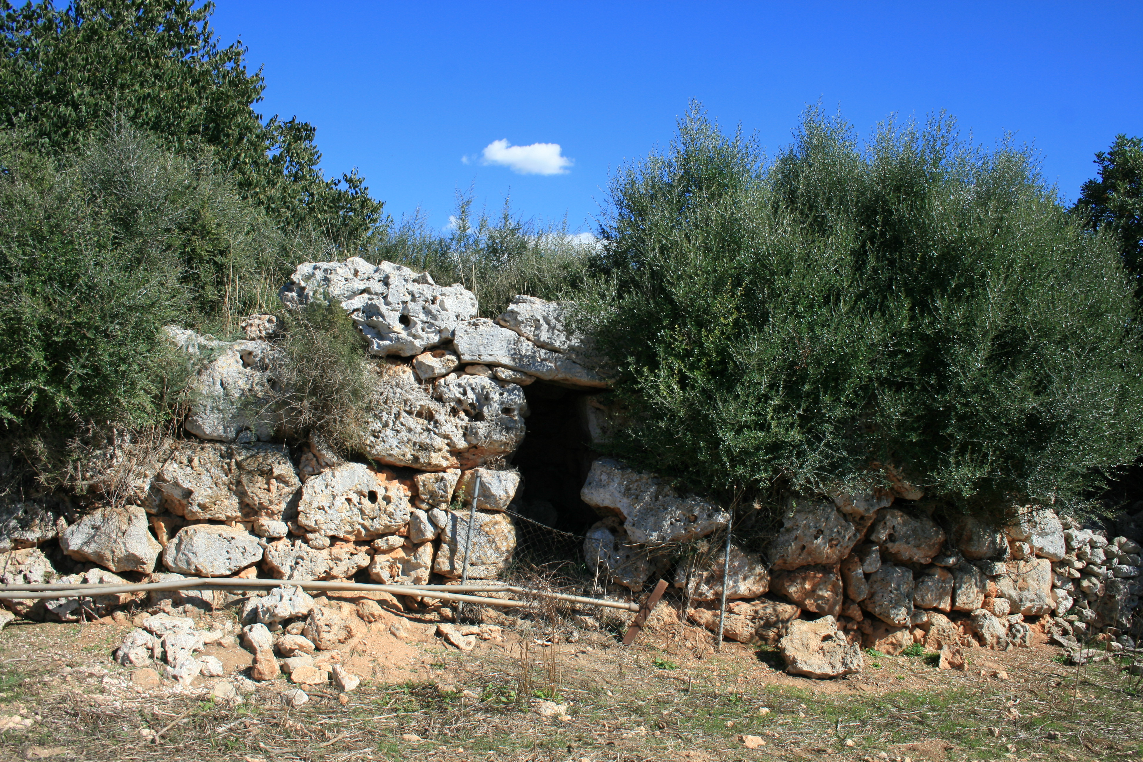 Cas Canar Mallorca talayot 1